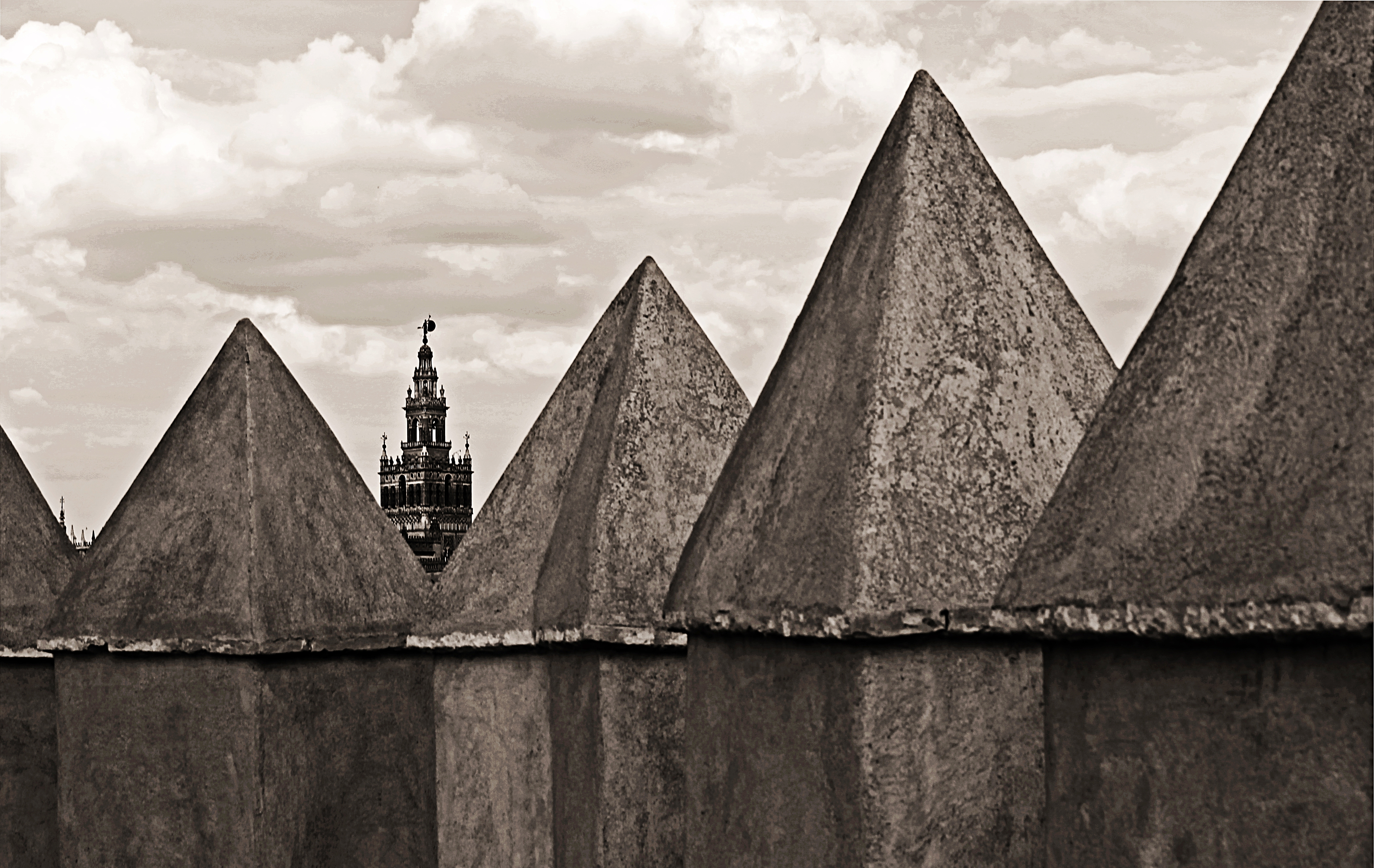 view of the giralda from the torre del oro. sepia effect